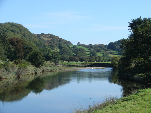 Afon Dyfi, near to Pennal, Gwynedd, Wales. About 3 miles downstream from Machynlleth, near the eastern edge of the square.